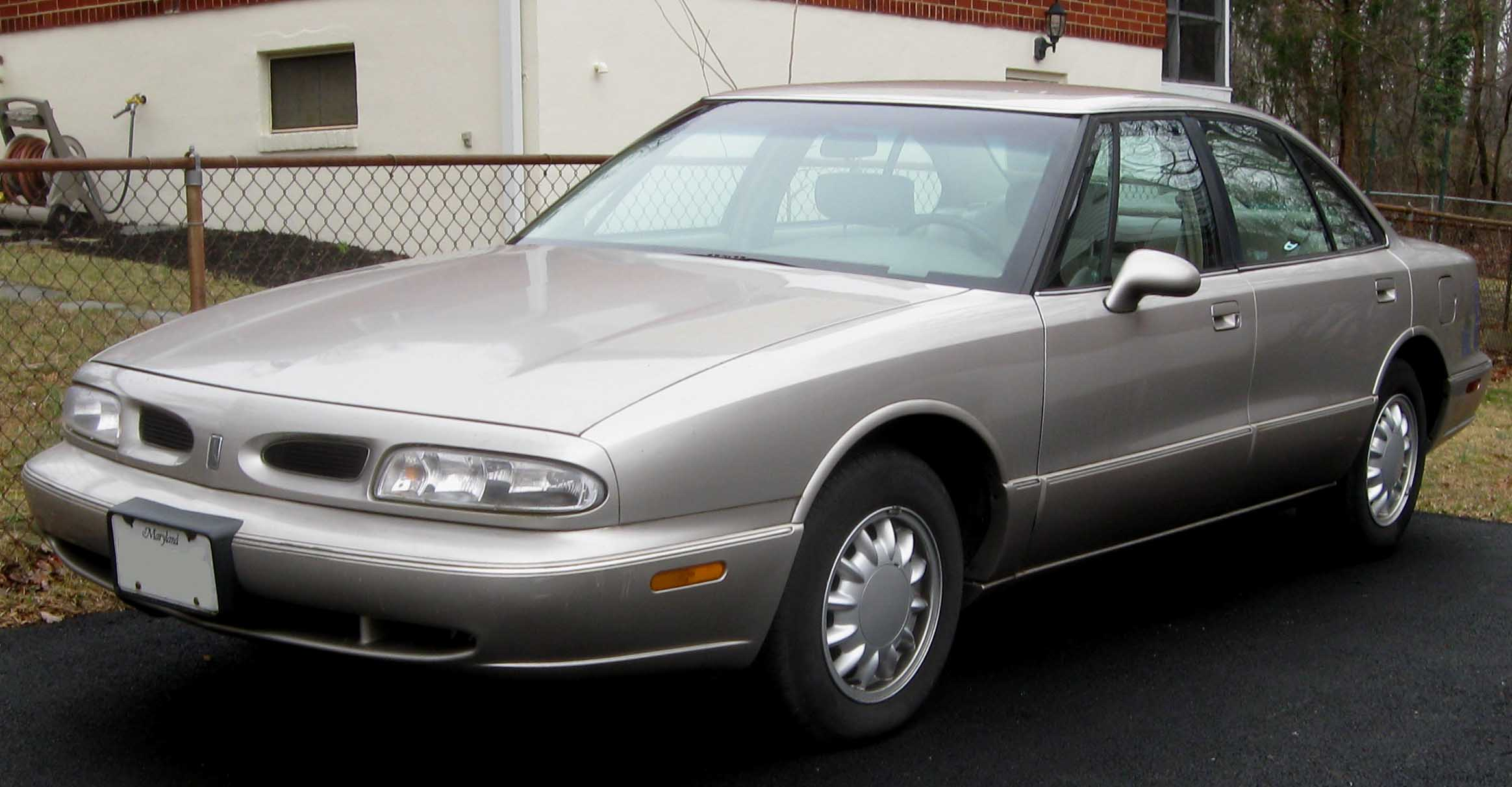 1996-1999 Oldsmobile Eighty-Eight photographed in Rockville, Maryland, USA.